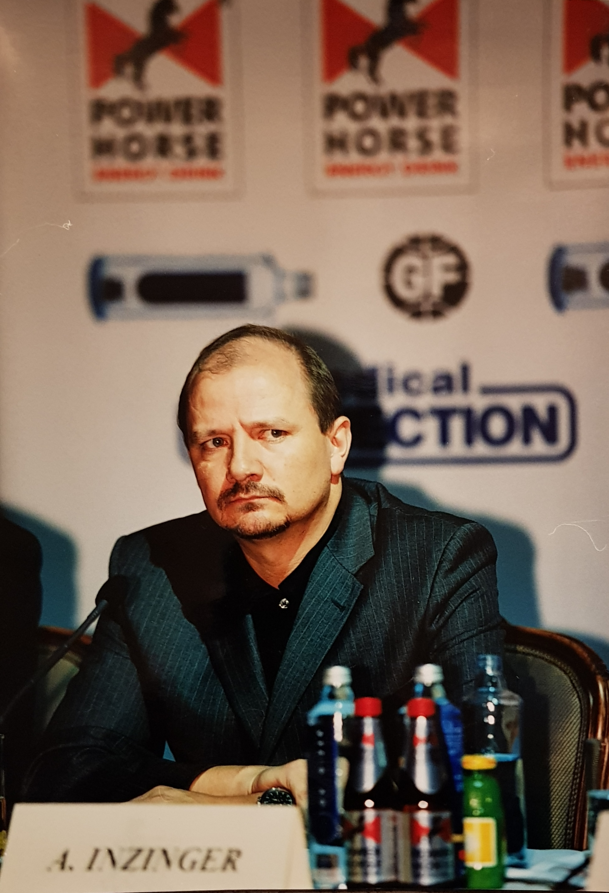 Alfred Inzinger 2001 World Awards Vienna, press conference